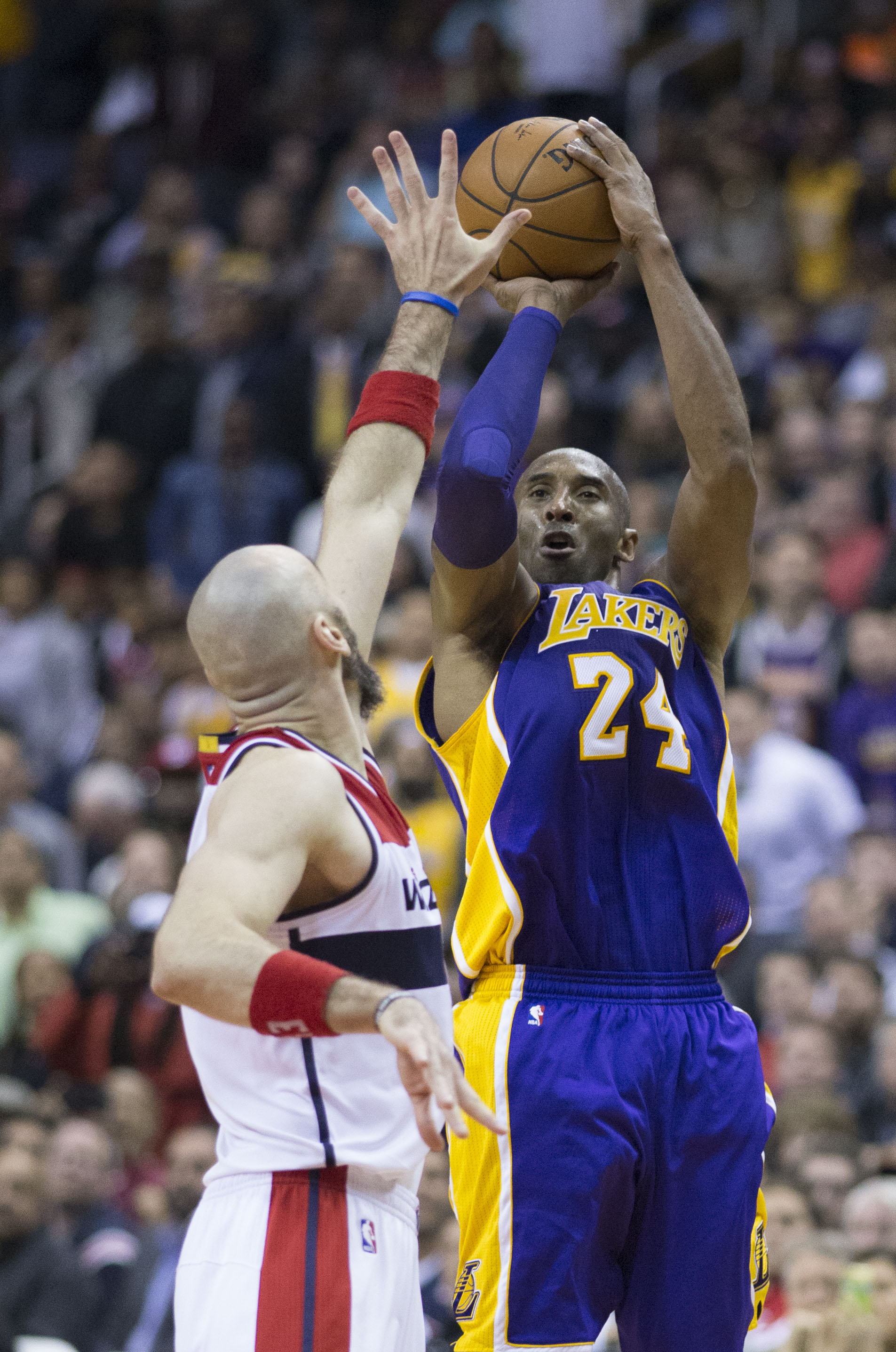 Kobe Bryant of Los Angeles Lakers defended by Marcin Gortat of Washington Wizards